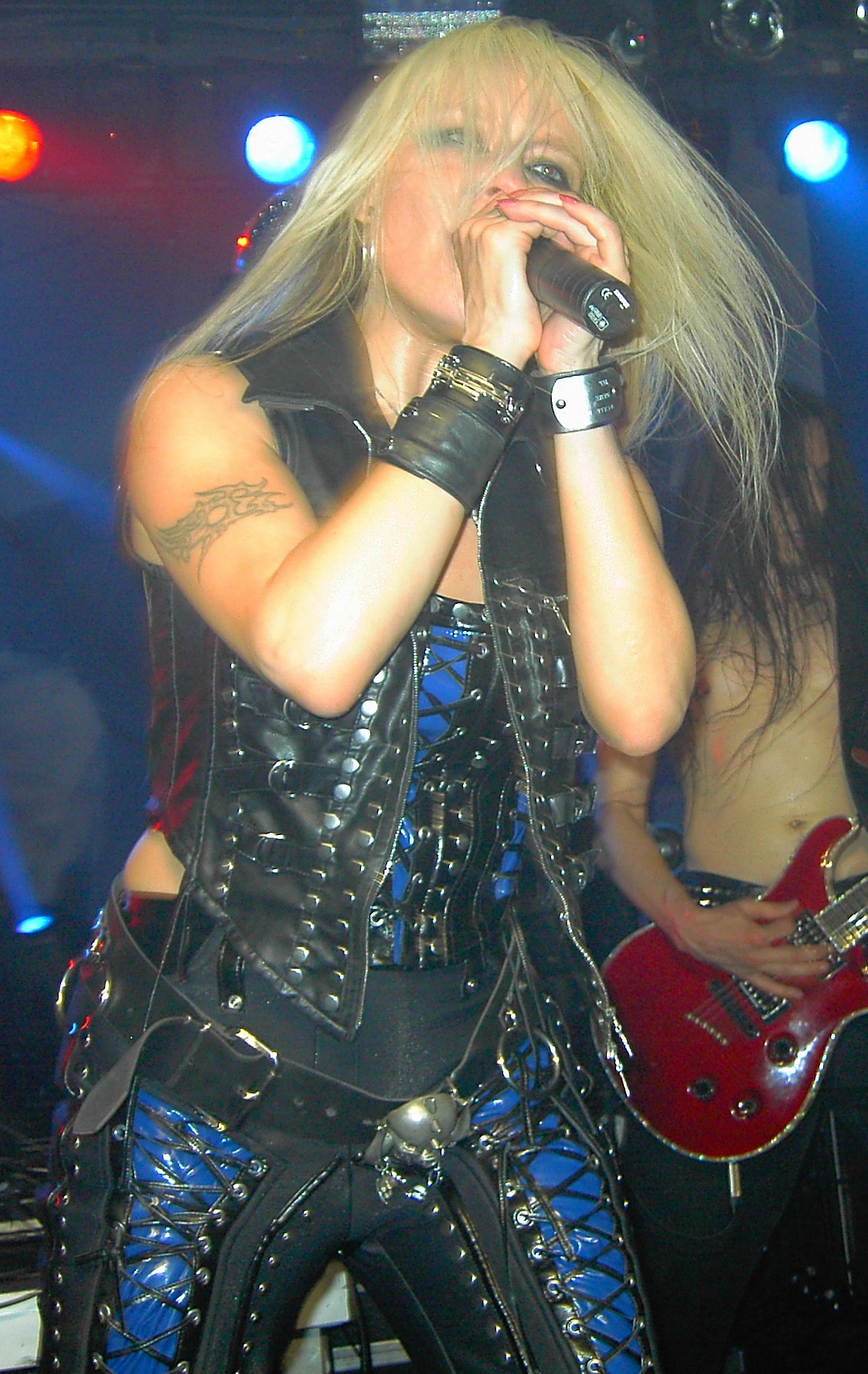 Doro Pesch live at Helmond, 28th April 2006